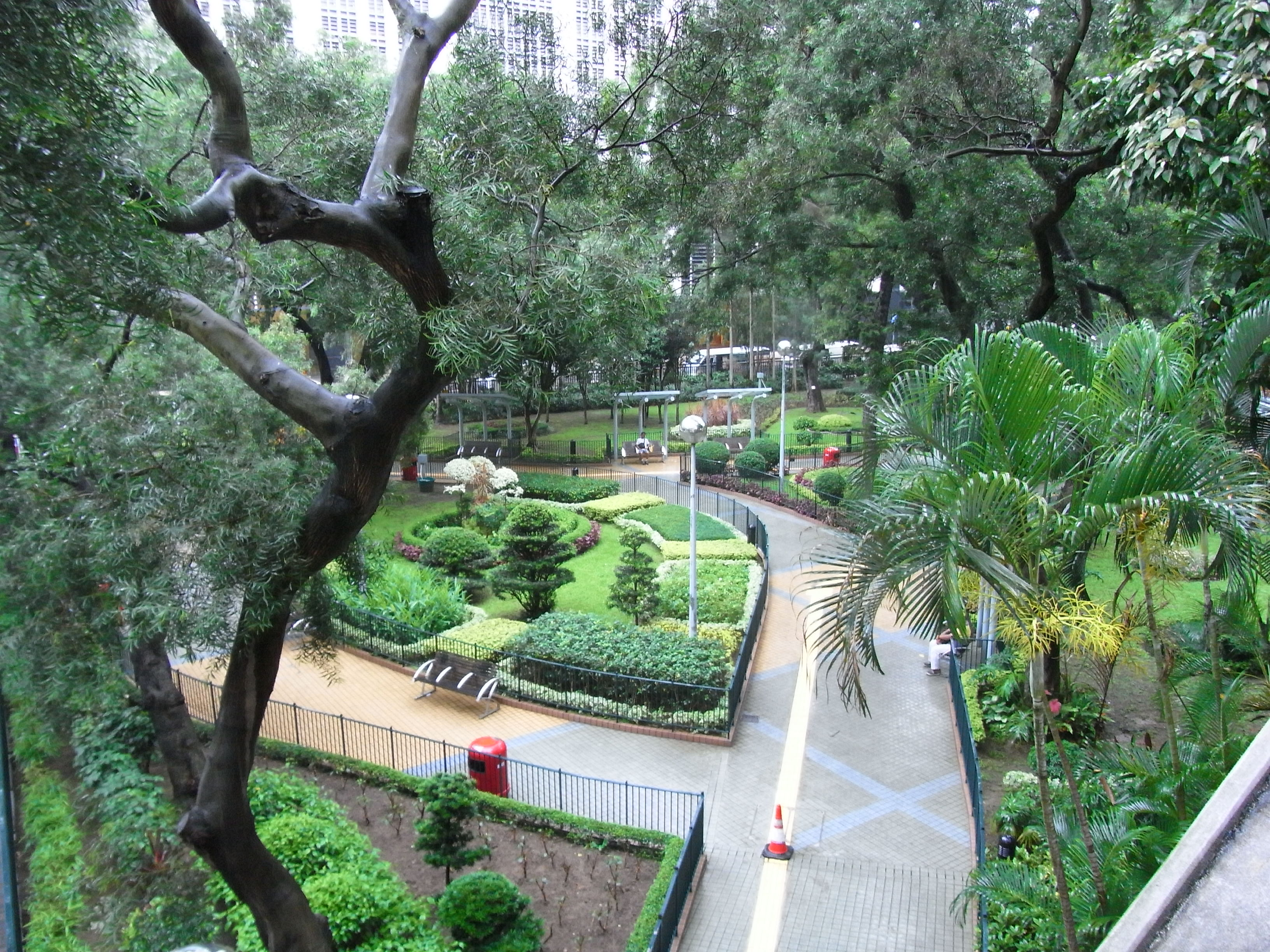 北角 英皇道 King's Road Playground, North Point, Hong Kong